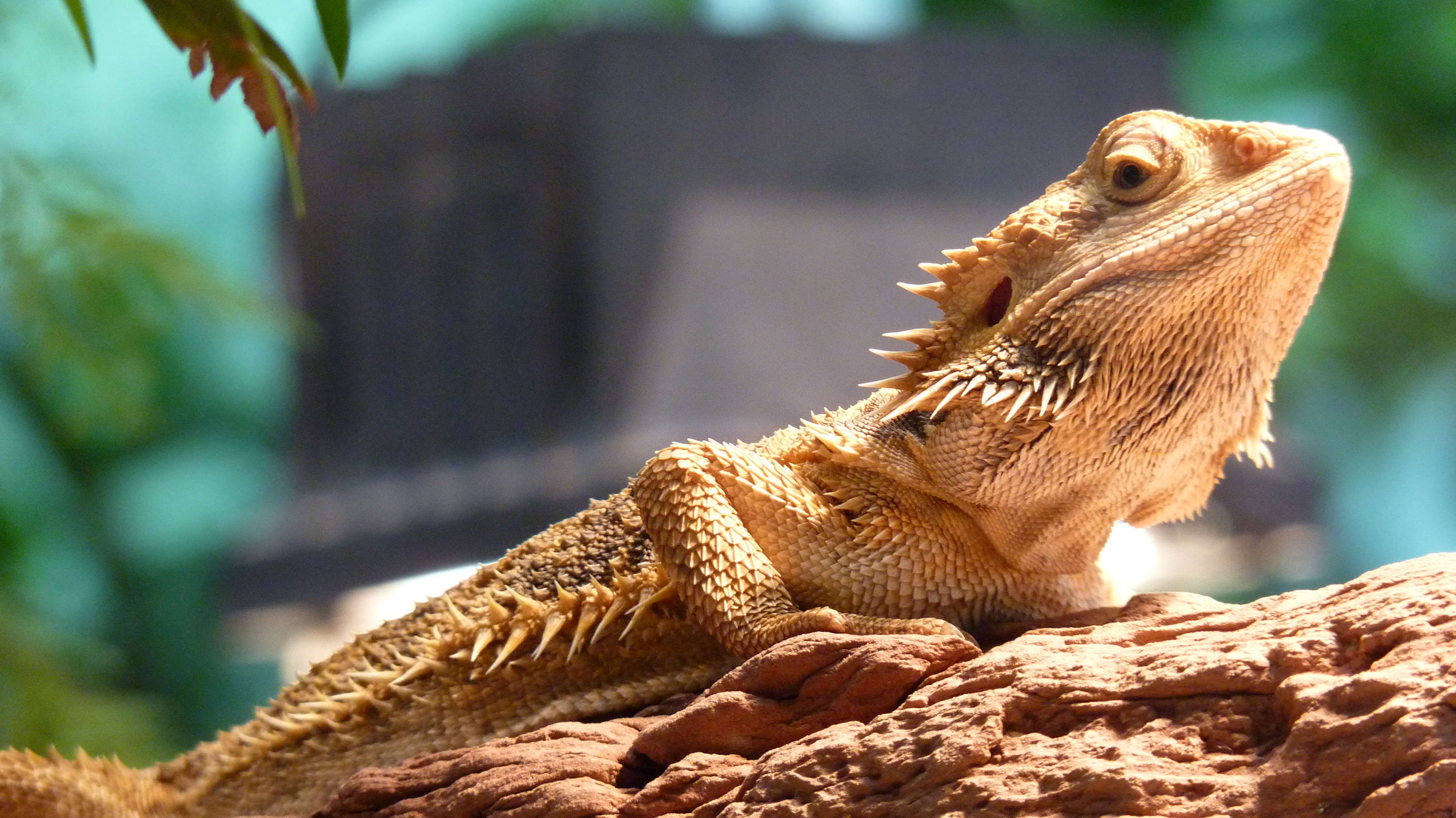 Pogona vitticeps, Wilhelma, Stuttgart